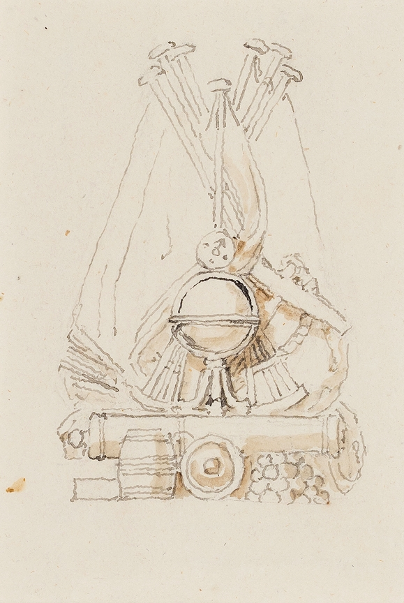 Design for the façade decoration of Buckingham Palace (1821-1826) by John Flaxman. Pen and ink. Offered for sale by Abbott & Holder in February 2019.